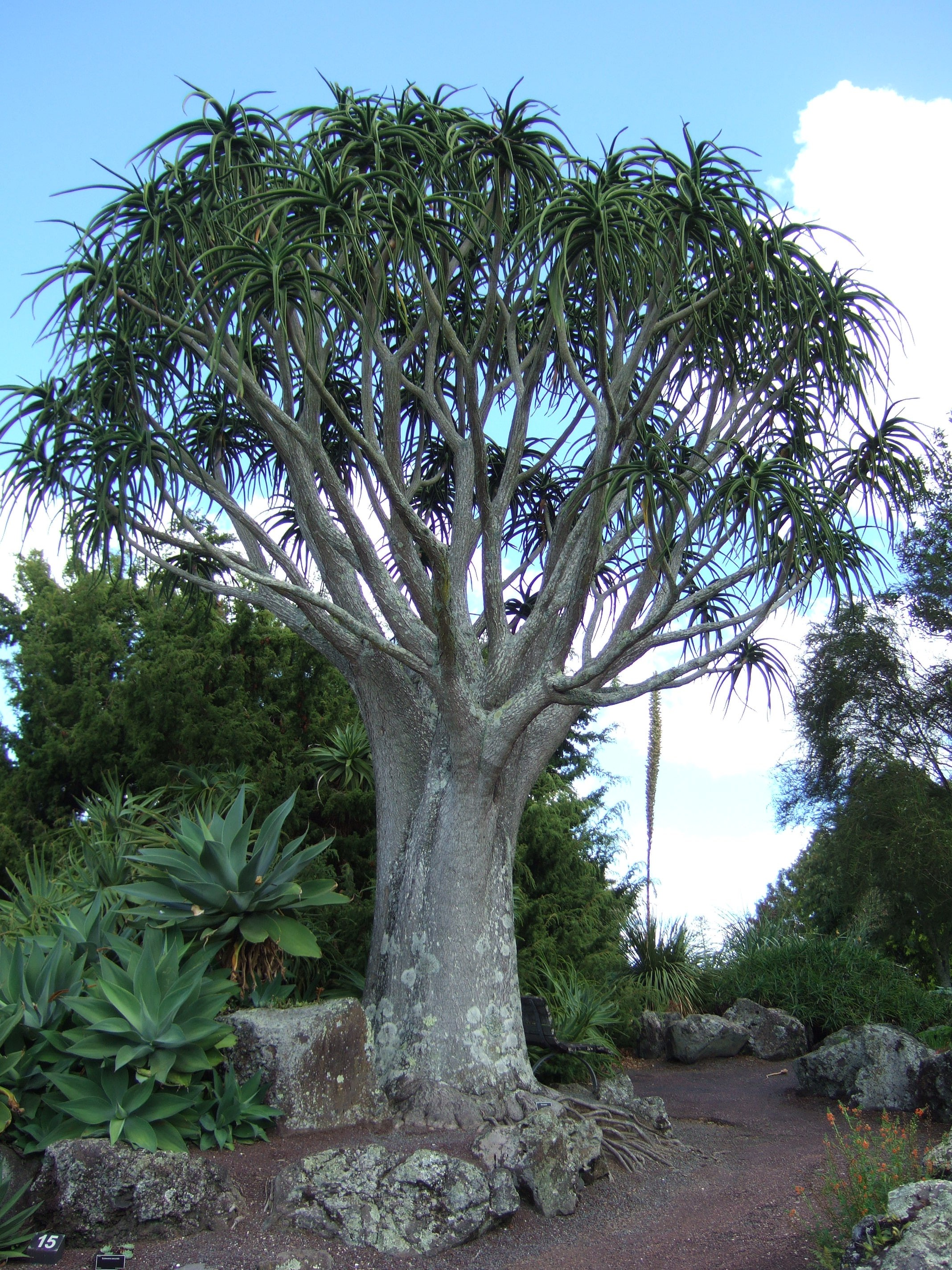 The Aloe bainesii tree aloe, growing at Auckland Botanic Gardens, Auckland, New Zealand. This example is about three metres high.